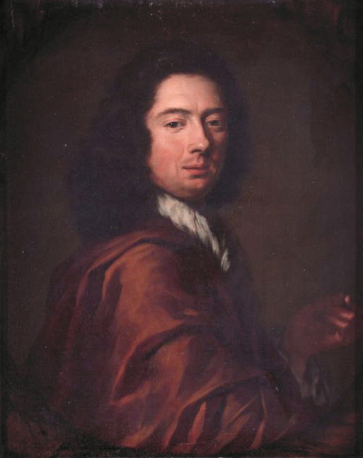 Arnold Houbraken oil on canvas 69,5 x 58,5 cm 1675 - 1699